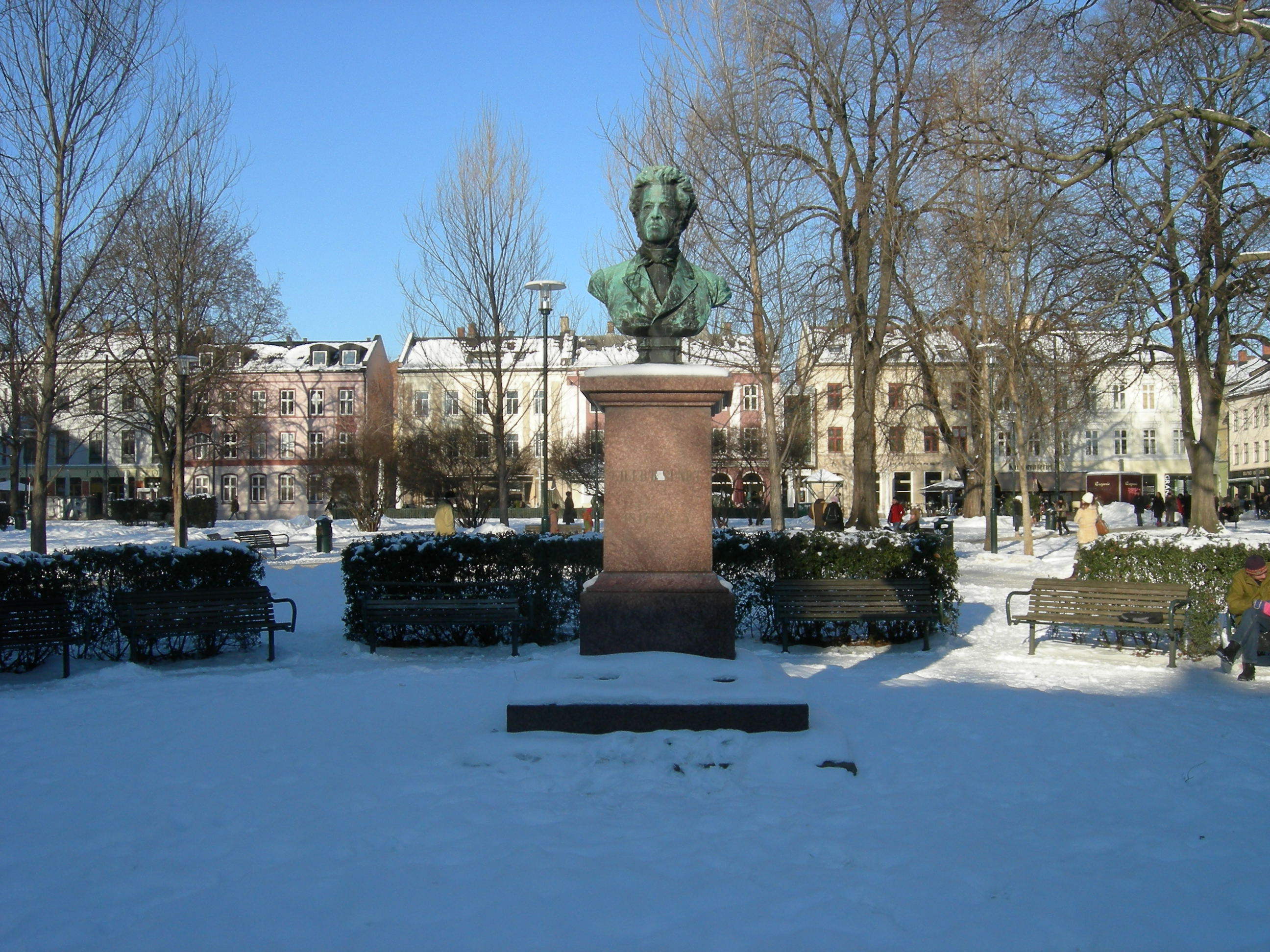 Olaf Ryes plass (square) in Grünerløkka, Oslo, Norway. Monument of Eilert Sundt, social scientist i the 19th century.